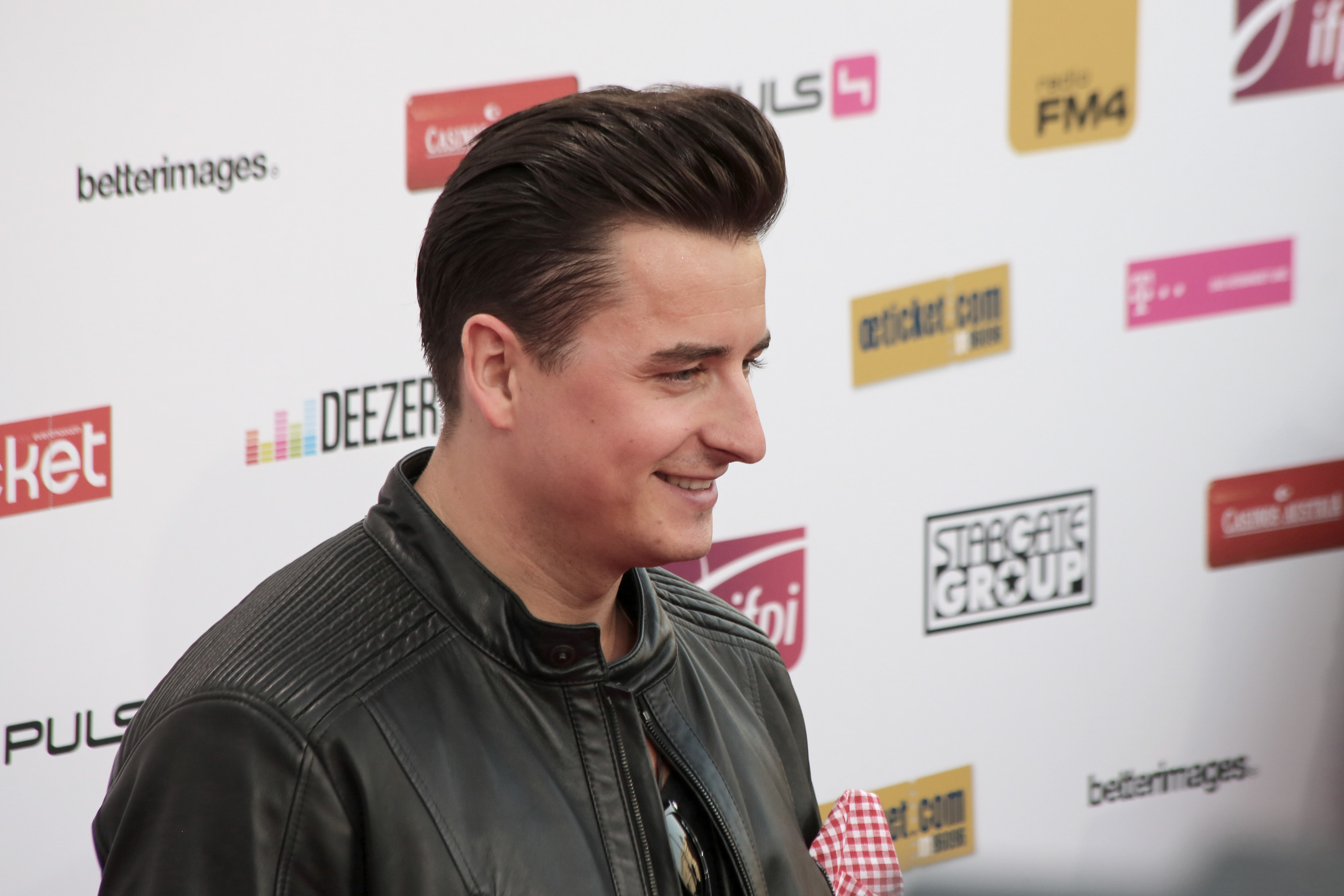 Andreas Gabalier at the Amadeus Austrian Music Award at Volkstheater in Vienna